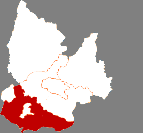 Location of Tialing county city in Tieling City, China